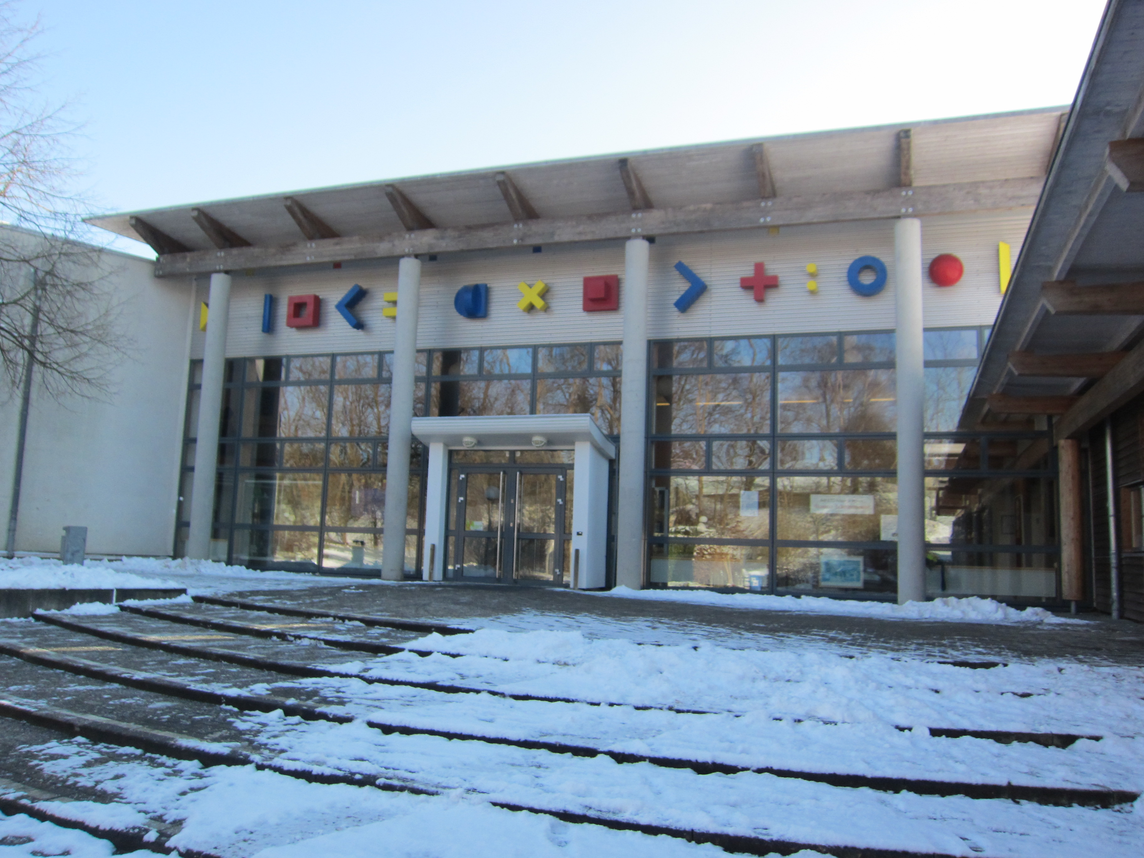 Entrance to the school "Theodor-Heuss-Schule" in Kiel-Hassee